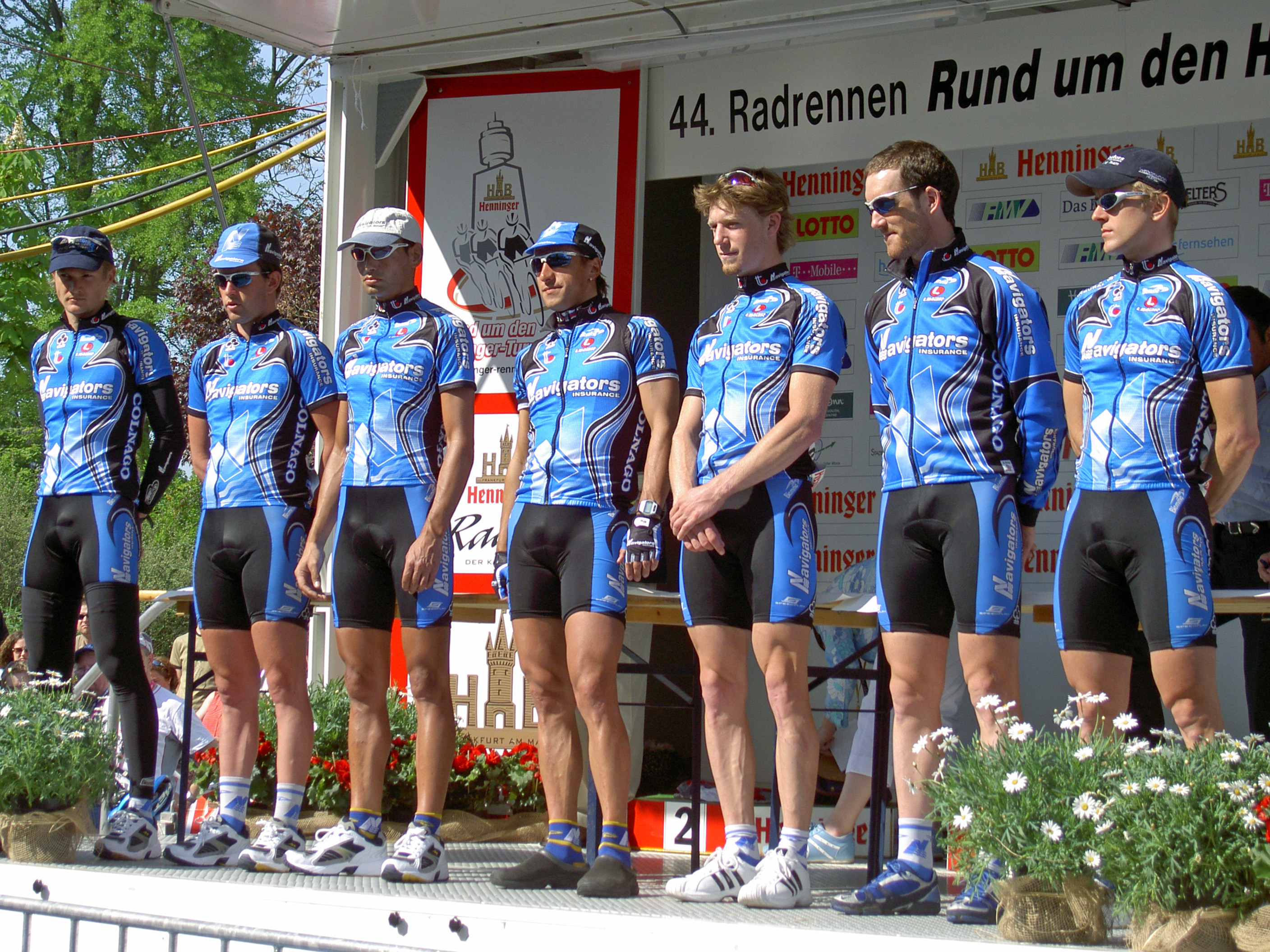 NAVIGATORS INSU - CYCLING TEAM, Rund um den Henninger-Turm, Frankfurt am Main, Germany Sportdirektor: Edward Beamon 121 CAMPONOGARA Siro 122 CLARKE Hilton 123 GRAJALES Cesar 124 GRISHKINE Oleg 125 MILNE Shawn 126 O`BEE Kirk 128 POWER Cirian